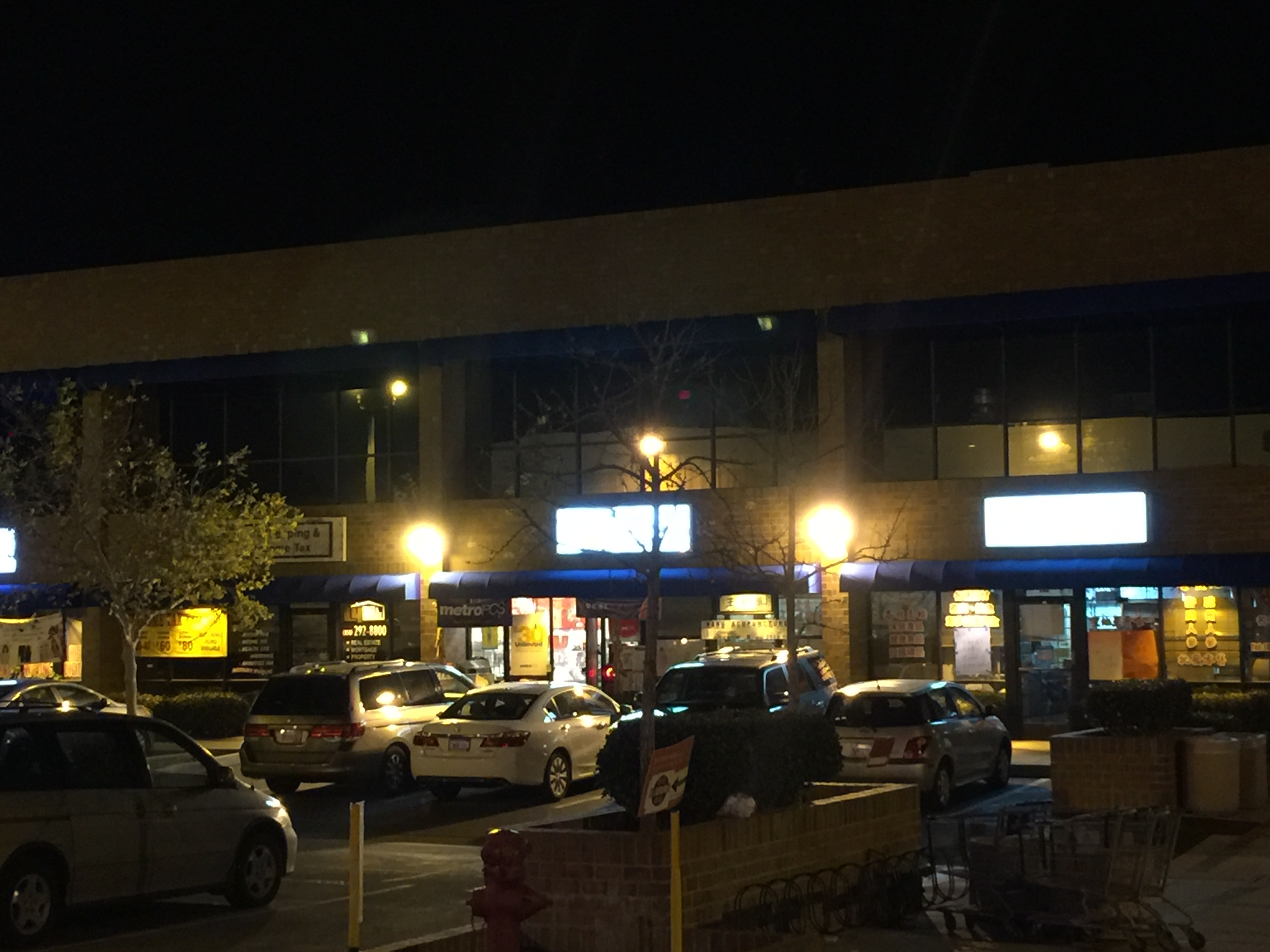 Kearny Mesa from my camera